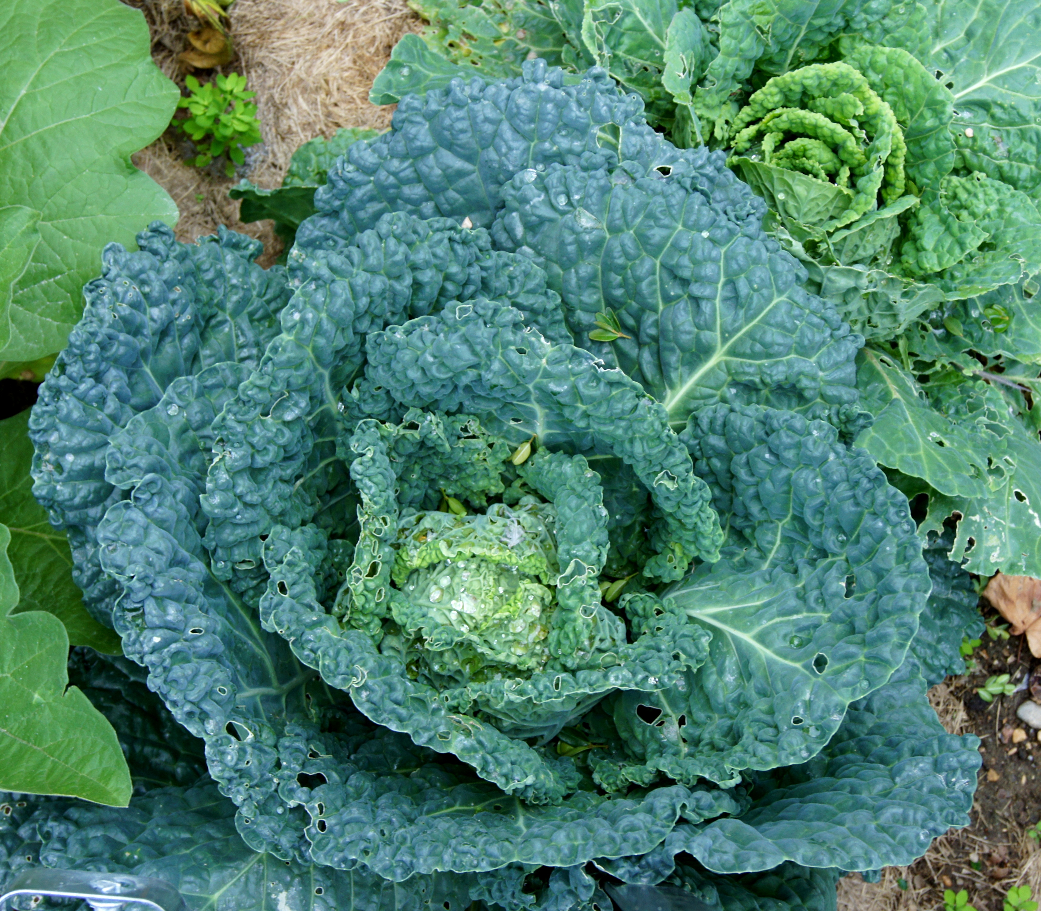 Brassica oleracea var. sabauda, from the vegetable garden of the Jardin des Plantes in Paris